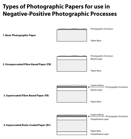 Diagram on different kinds of traditional photographic papers. Created by myself. I hereby release this image into the public domain.